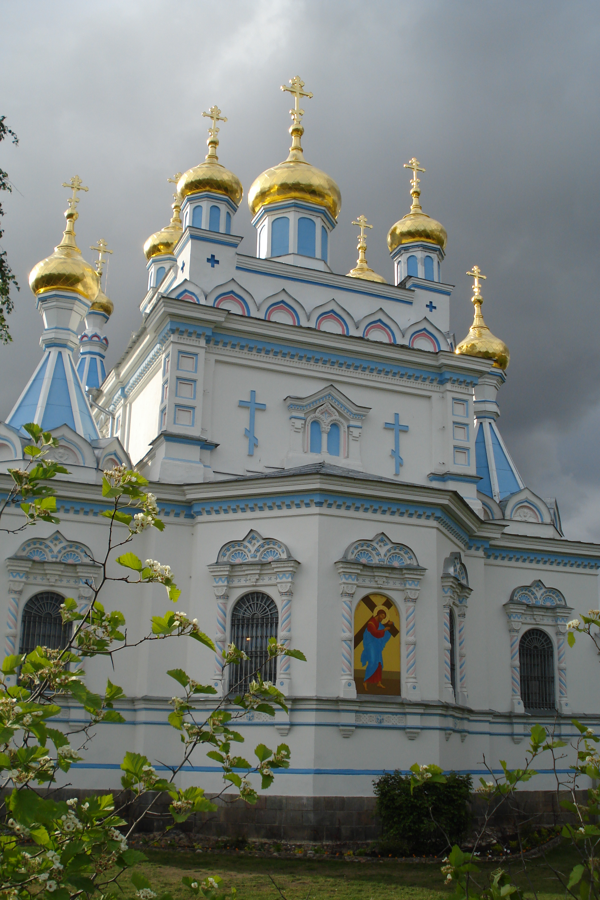 Daugavpils Ss Boris and Gleb Orthodox Cathedral